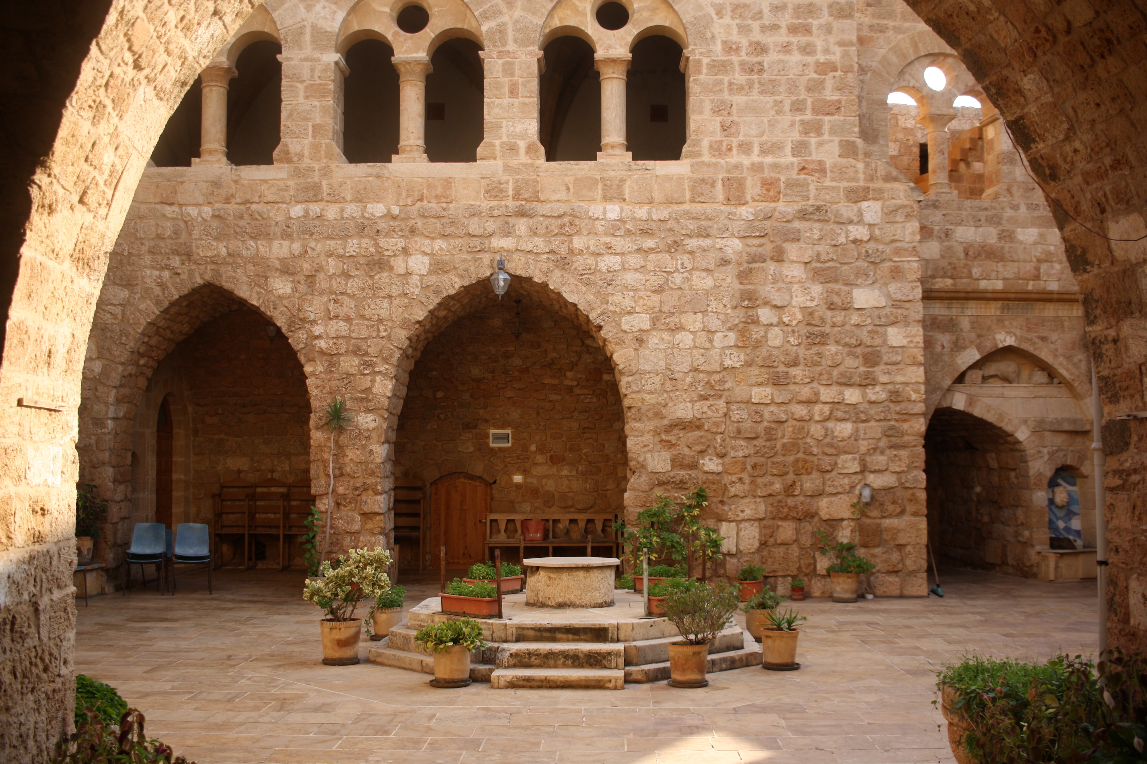 L'intérieur de Deir El Natour à Enfeh